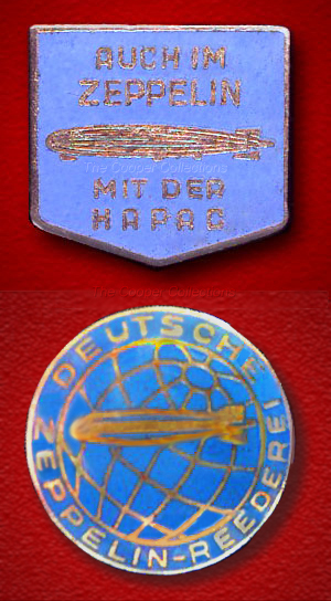 Passenger lapel pins for travel on Zeppelin airships (The Cooper Collections) These lapel pins were distributed free to passengers who flew on the "Graf Zeppelin" (above and below) and "Hindenburg" (below) as promotional items.